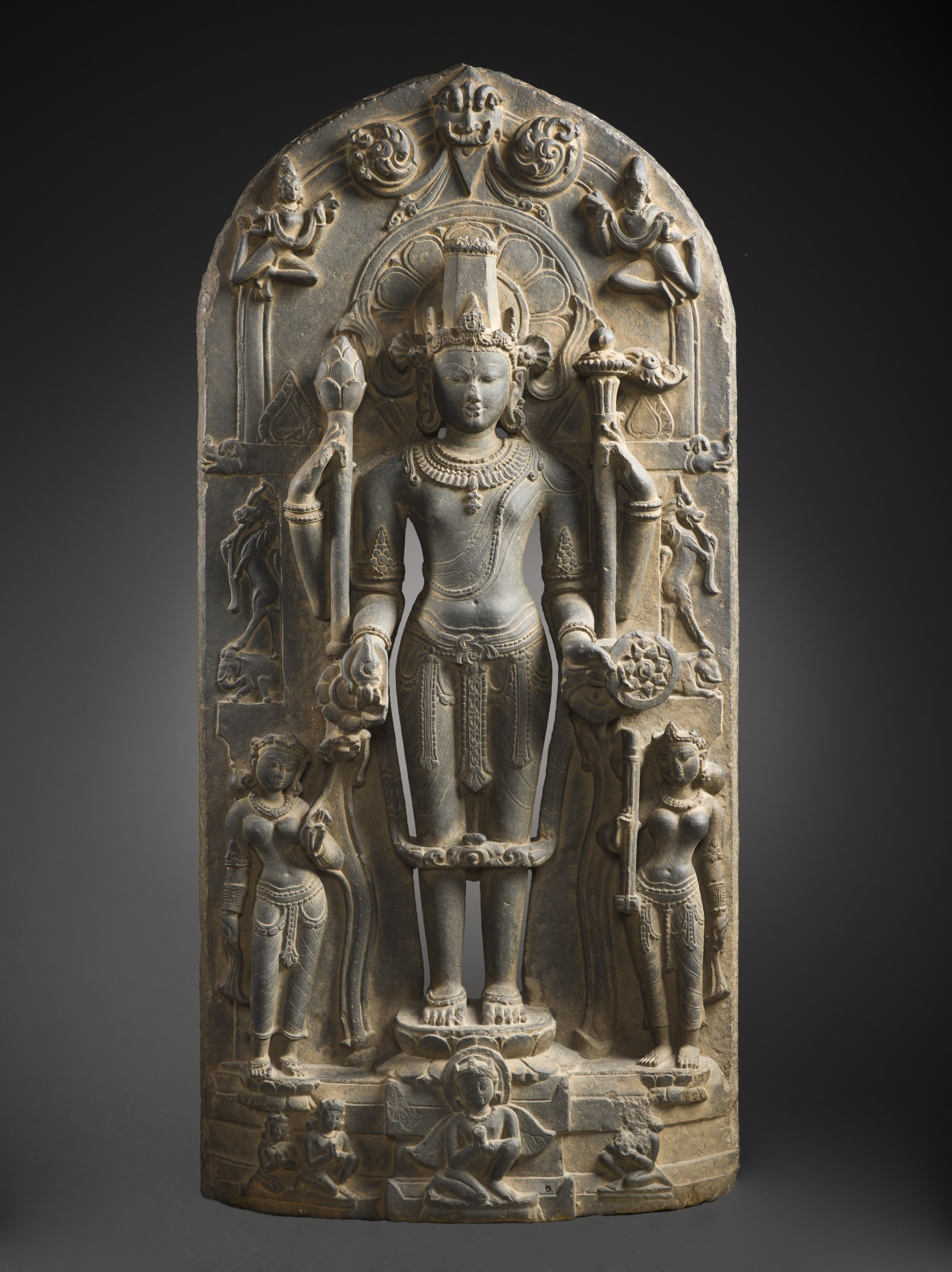 Bangladesh, circa 1000 Sculpture Schist 44 x 18 x 6 in. (111.76 x 45.72 x 15.24 cm) Anonymous gift in honor of the museum's twenty-fifth anniversary (M.91.294.1) South and Southeast Asian Art